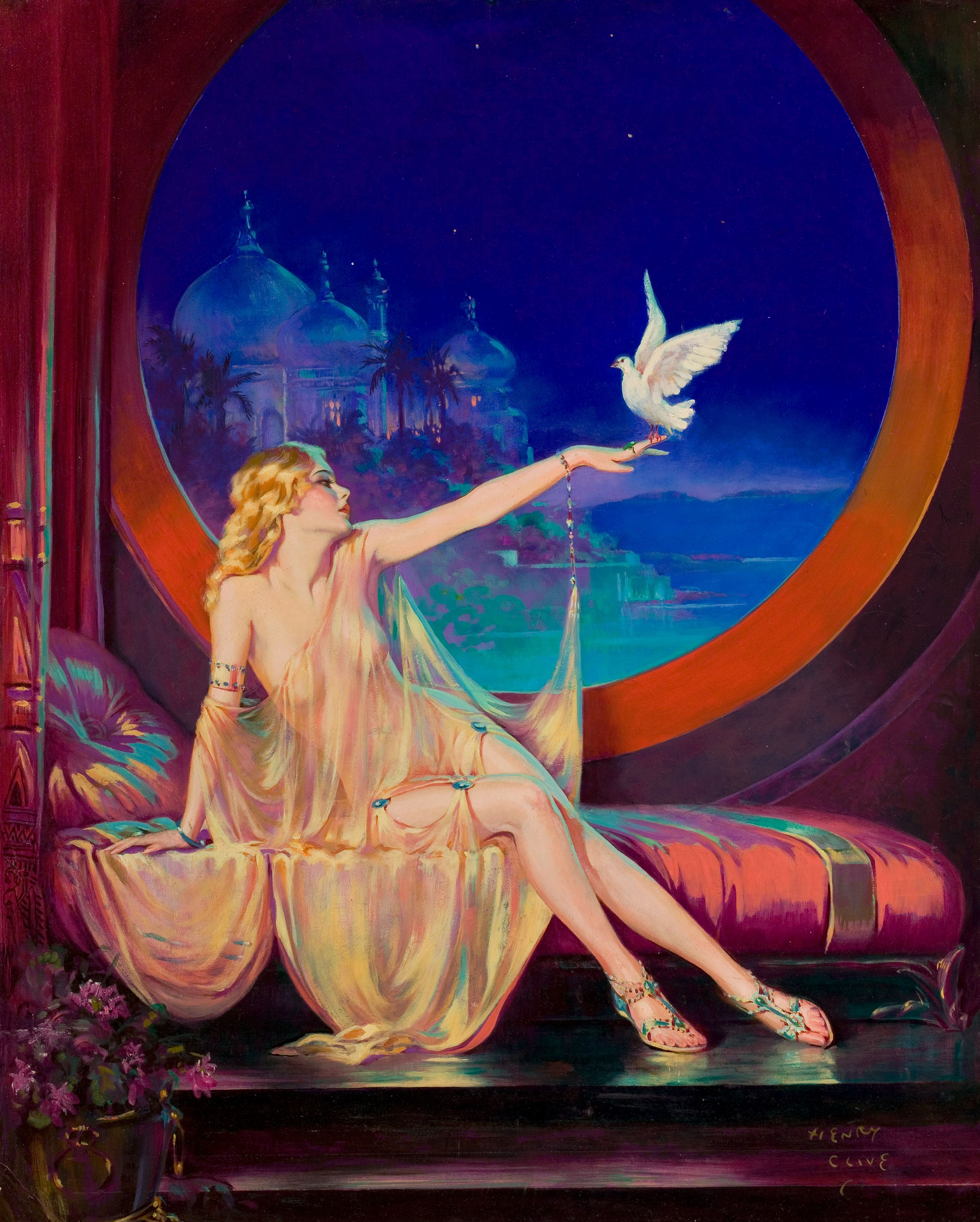 Sultana. Oil on board, 30 x 23.75 in (76.2 x 60.3 cm).